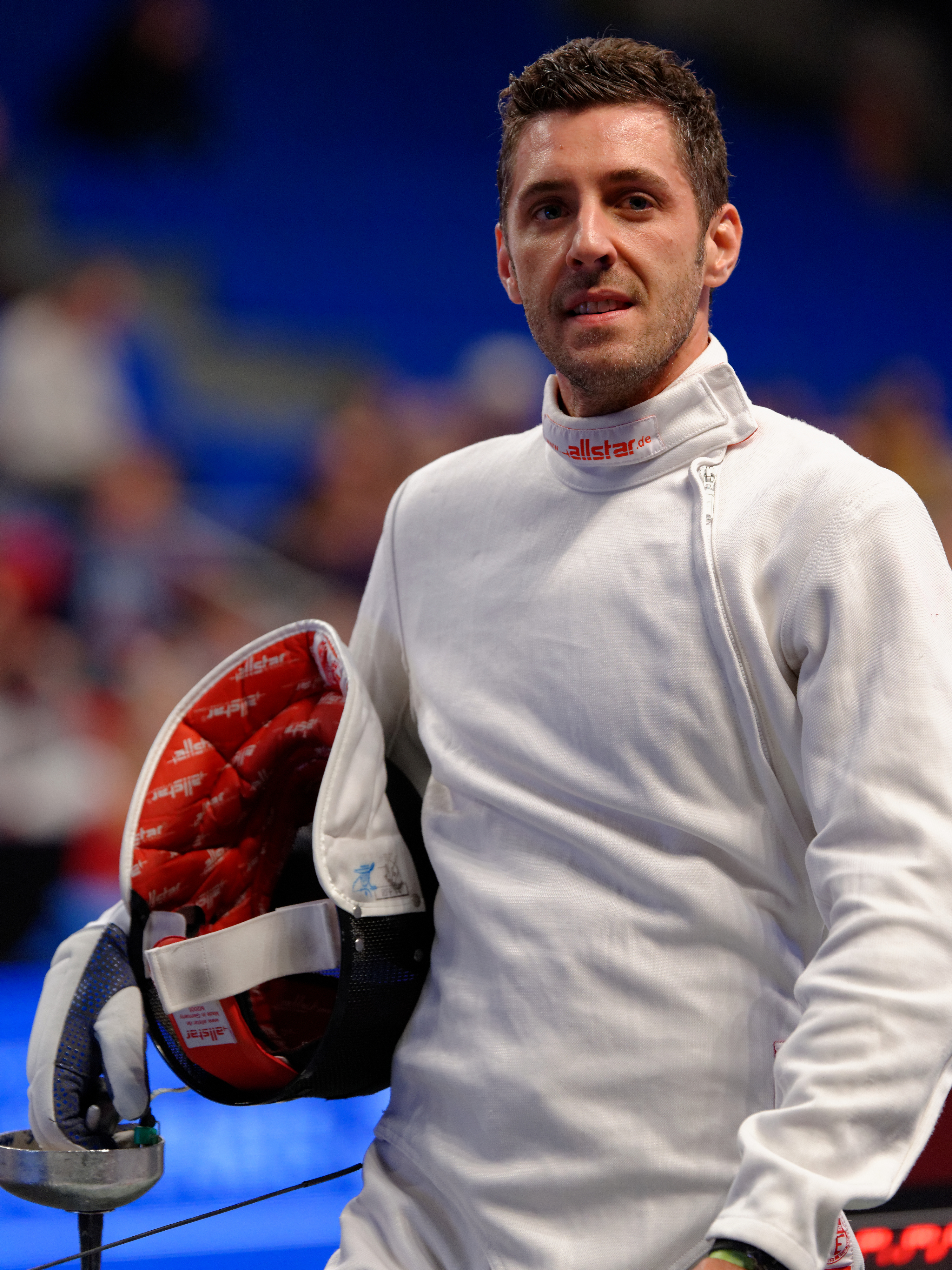 Hungary's Gábor Boczkó during his T16 match against Jung Jin-sun of Korea at the 2014 Challenge RFF-Trophée Monal, a men's épée World Cup event, on 3 May 2014.